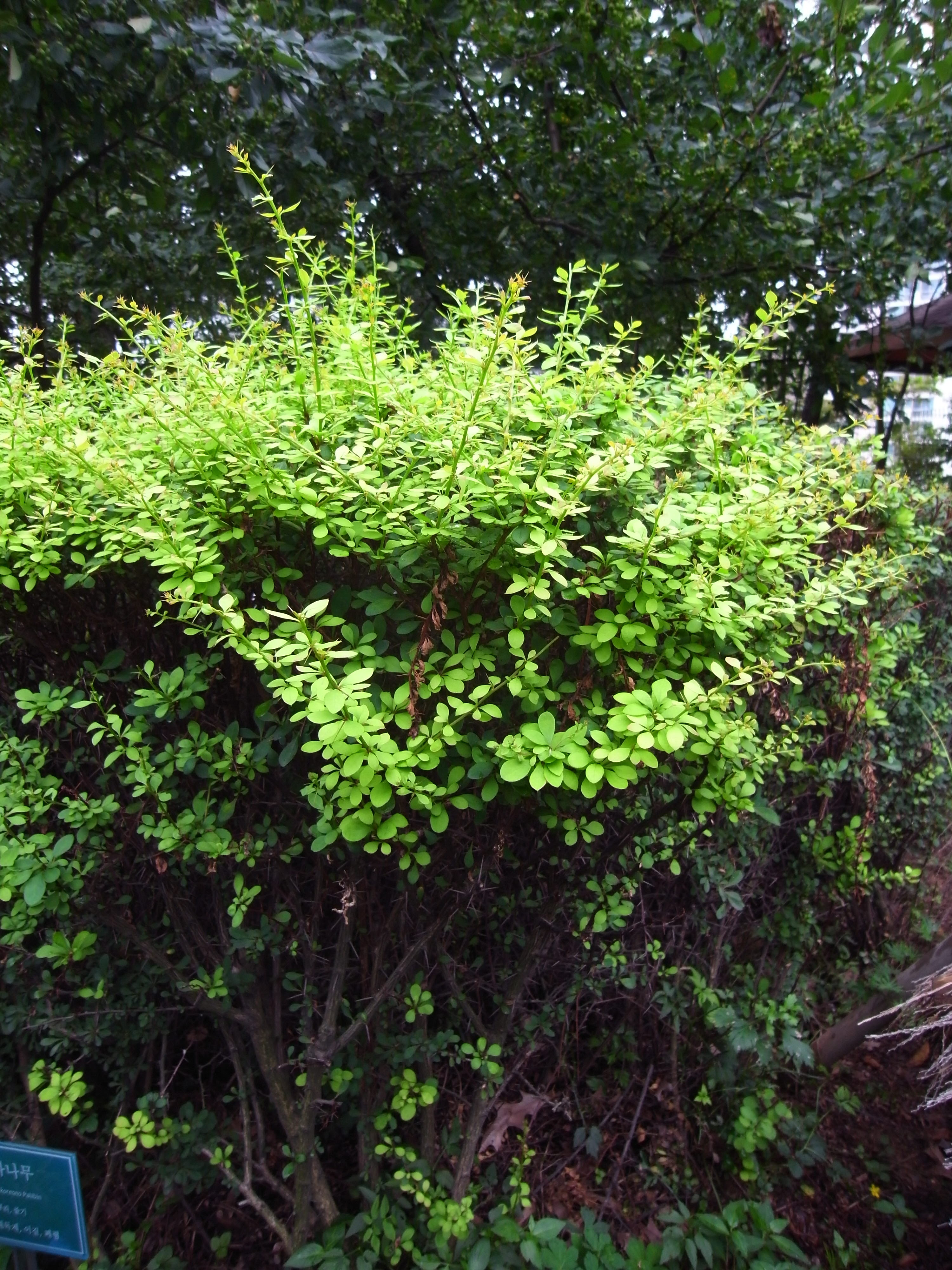 Berberis koreana in Heo jun Museum, Korea